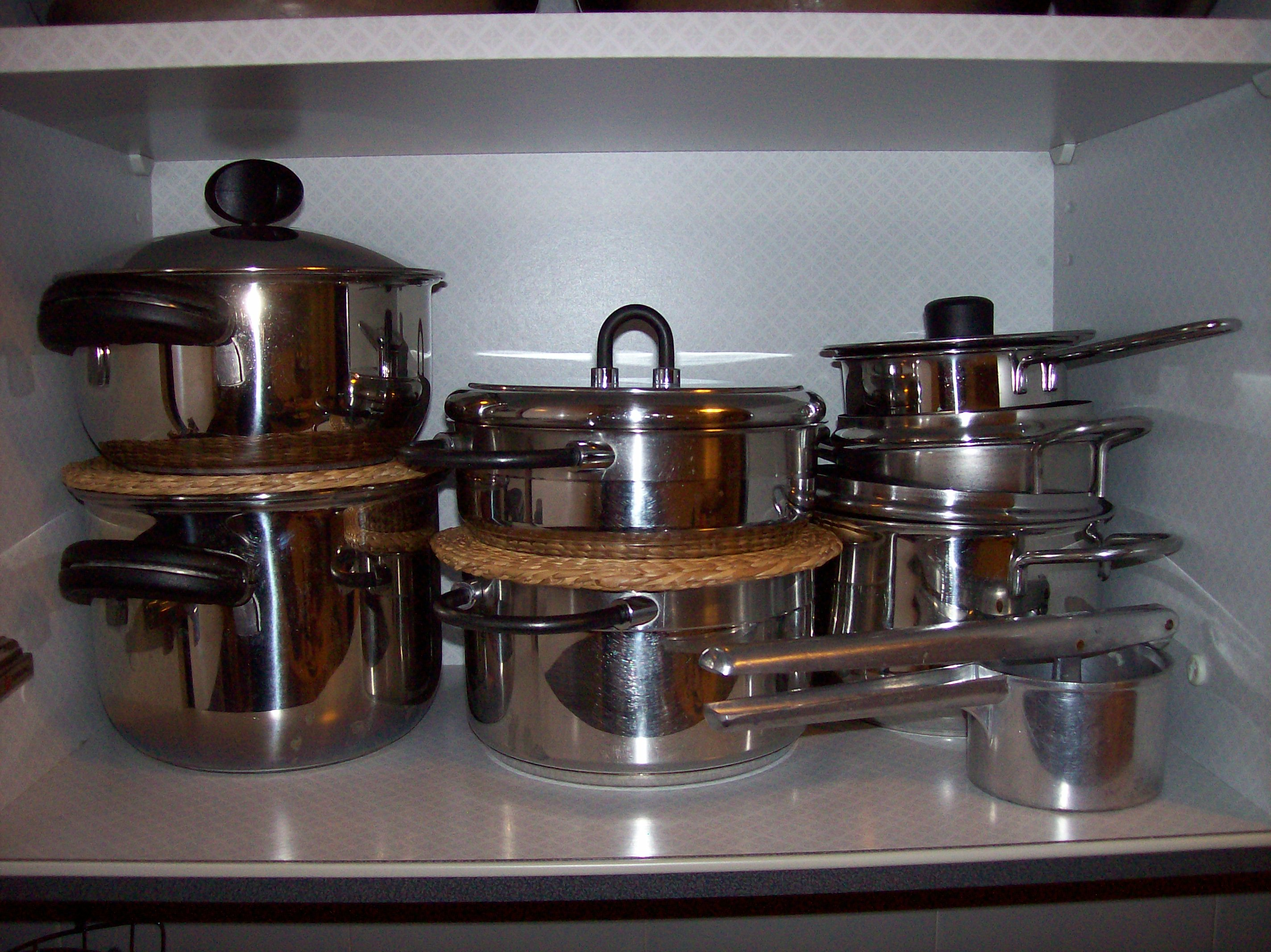 Some cooking pots in a kitchen.